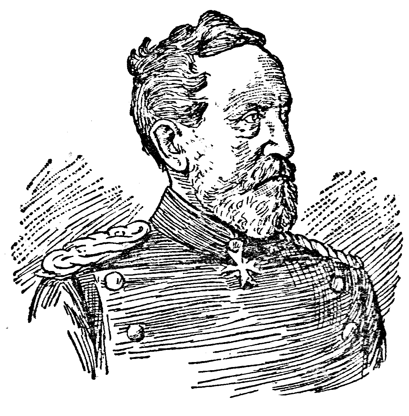 Leonhard Graf von Blumenthal. Portrait from the book "Der Krieg zwischen Frankreich und Deutschland in den Jahren 1870/71. Unter Zugrundelegung des Großen Generalstabswerkes bearbeitet von J. Scheibert Major z. D. Mit 44 Karten und Schlachtenplänen und 22 Porträts. Berlin 1892. Verlag von W. Pauli's Nachf. (H. Jerosch). W. 57, Göben-Straße 6."